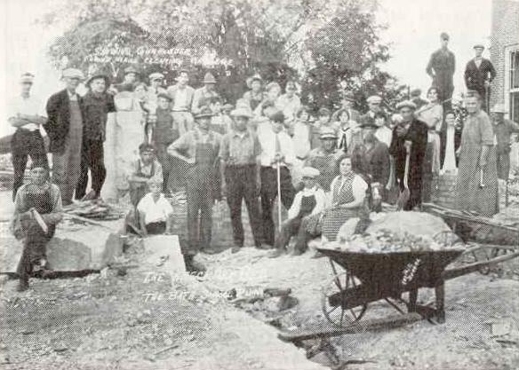 Clean-up crew at the ruins of Bath Consolidated School.